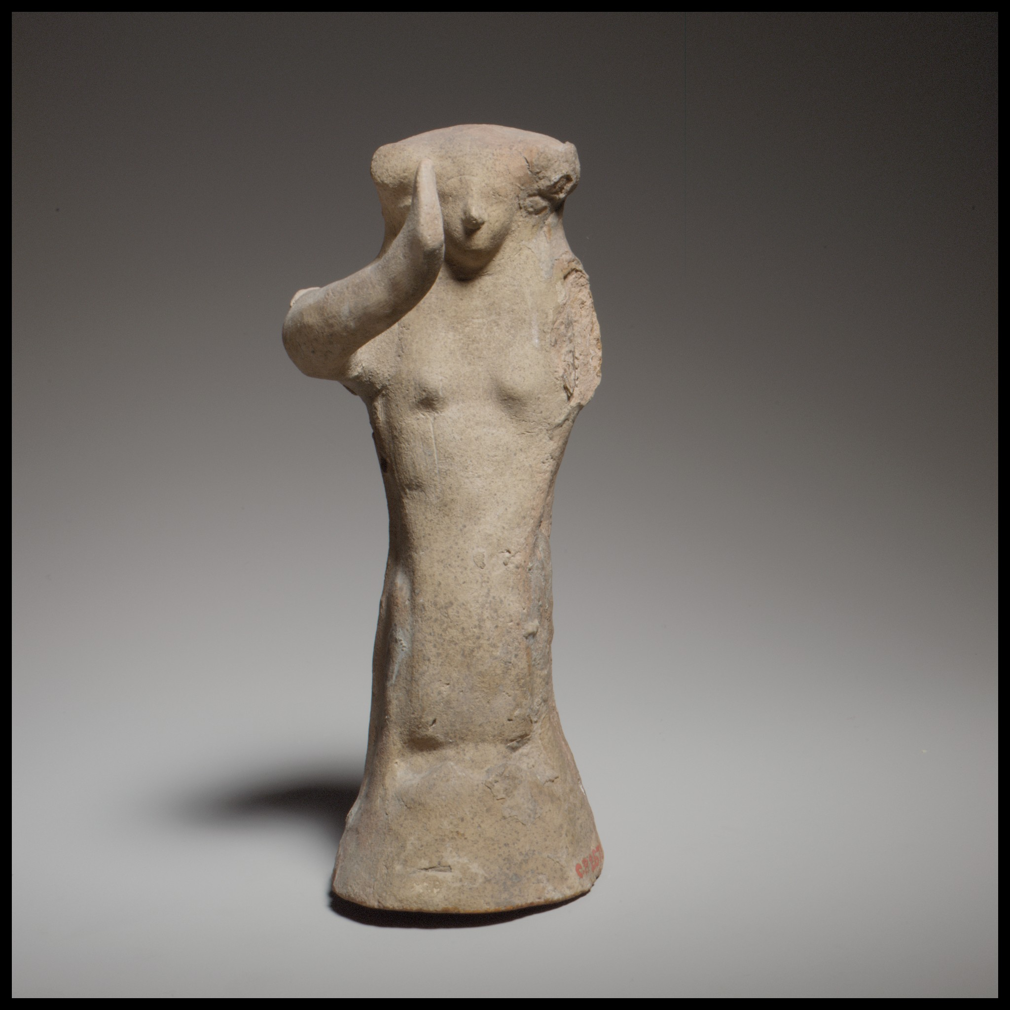 Cypriot; Statuette of a woman; Terracottas